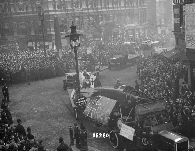 Photographer: Thomas Frederick Scales Captured World War I German planes paraded in London, November 1918 Dry plate glass negative Reference No. 1/2-014083-G Royal New Zealand Returned and Services' Association Collection, Alexander Turnbull Library, National Library of New Zealand Find out more about this image from the Alexander Turnbull Library. Front plane is an Albatross DIII; the second is probably a Pfalz DIII Taken in Ludgate Circus, parading from New Bridge Street into Fleet Street